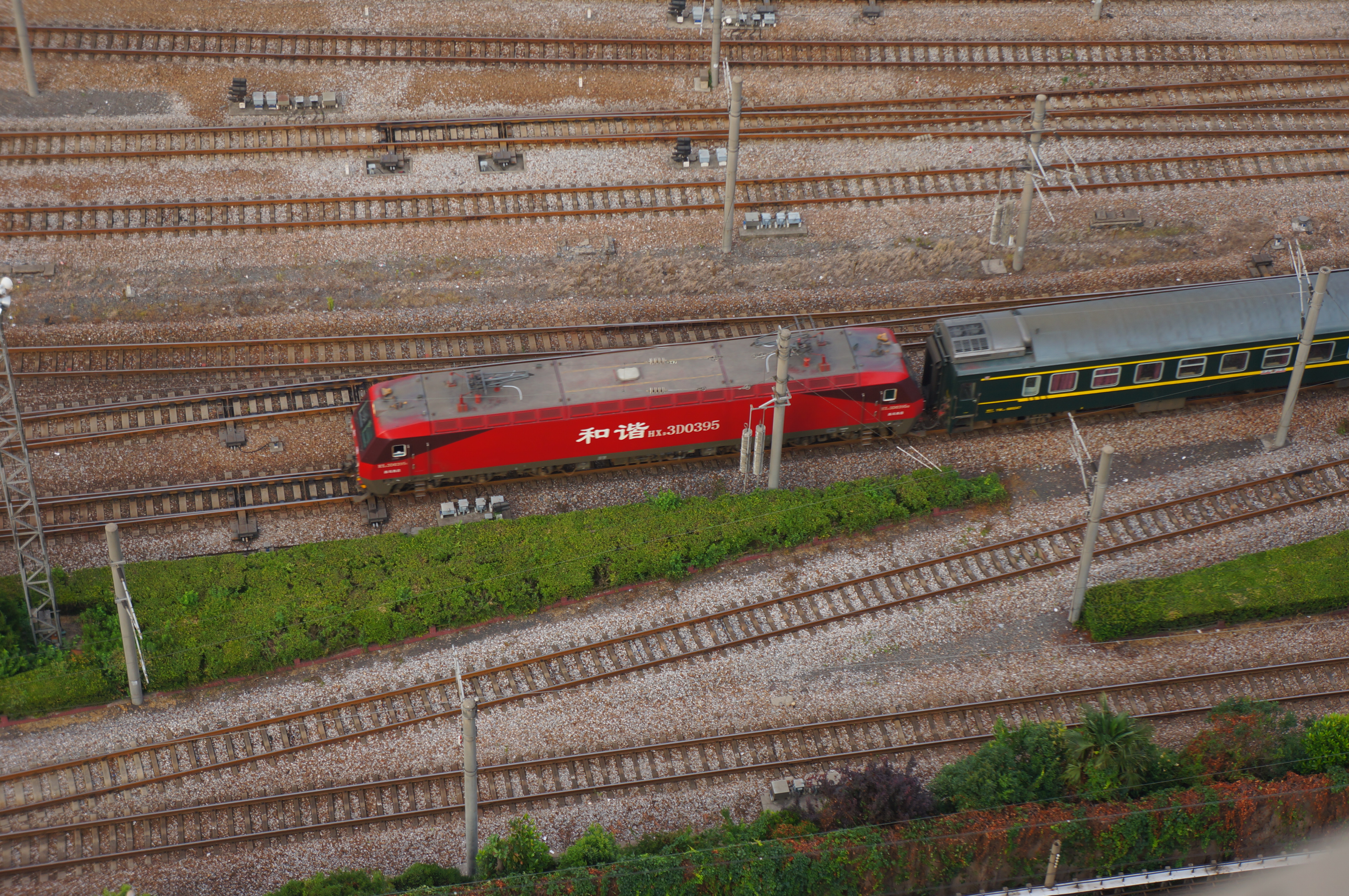 201806 HXD3D-0395 hauls K359 from Yinchuan at Shanghai Station